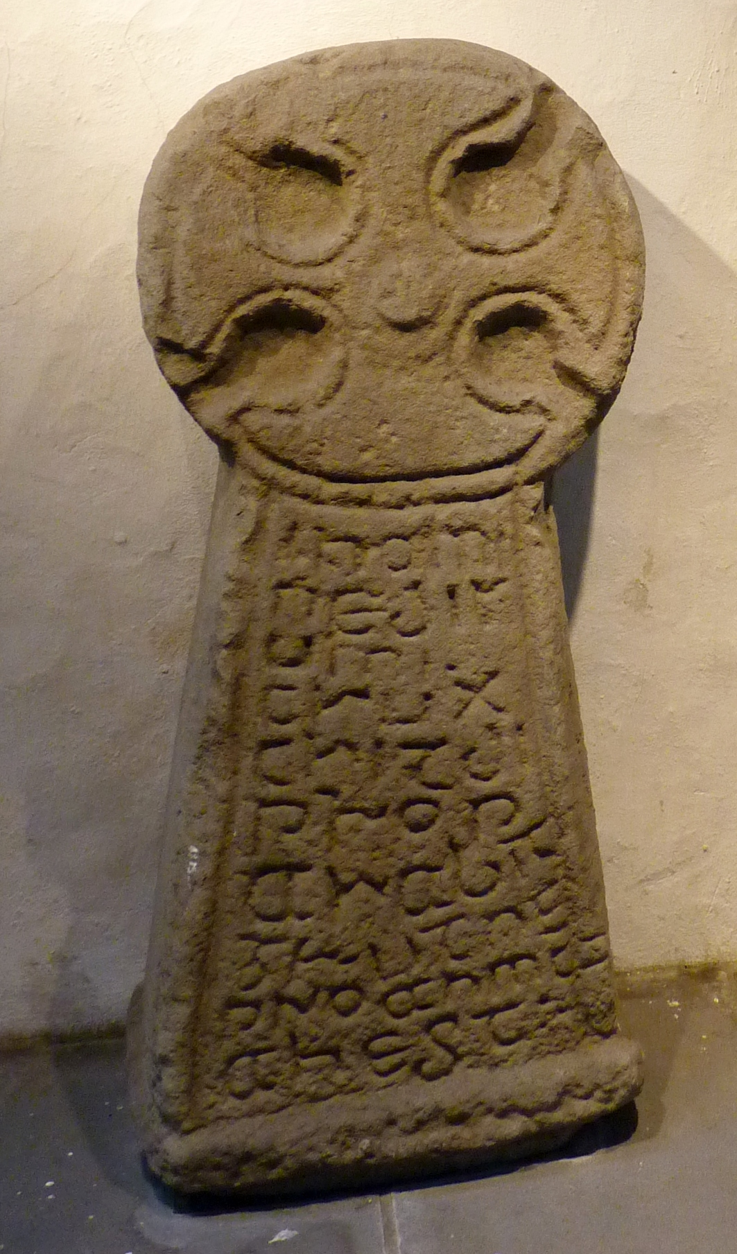 10th C Disc-headed sculpted cross, 'erected by Grutne for the soul of Ahest'. From Margam Churchyard (recorded 1700). It is now in the Margam Stones Museum.